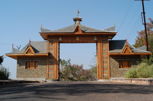 Parol Himalayan Village gate